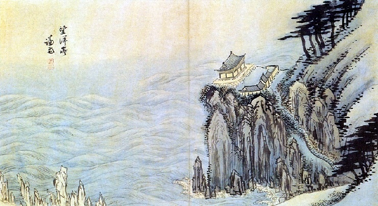 Mangyangjeong pavilion painted by Jeong Seon